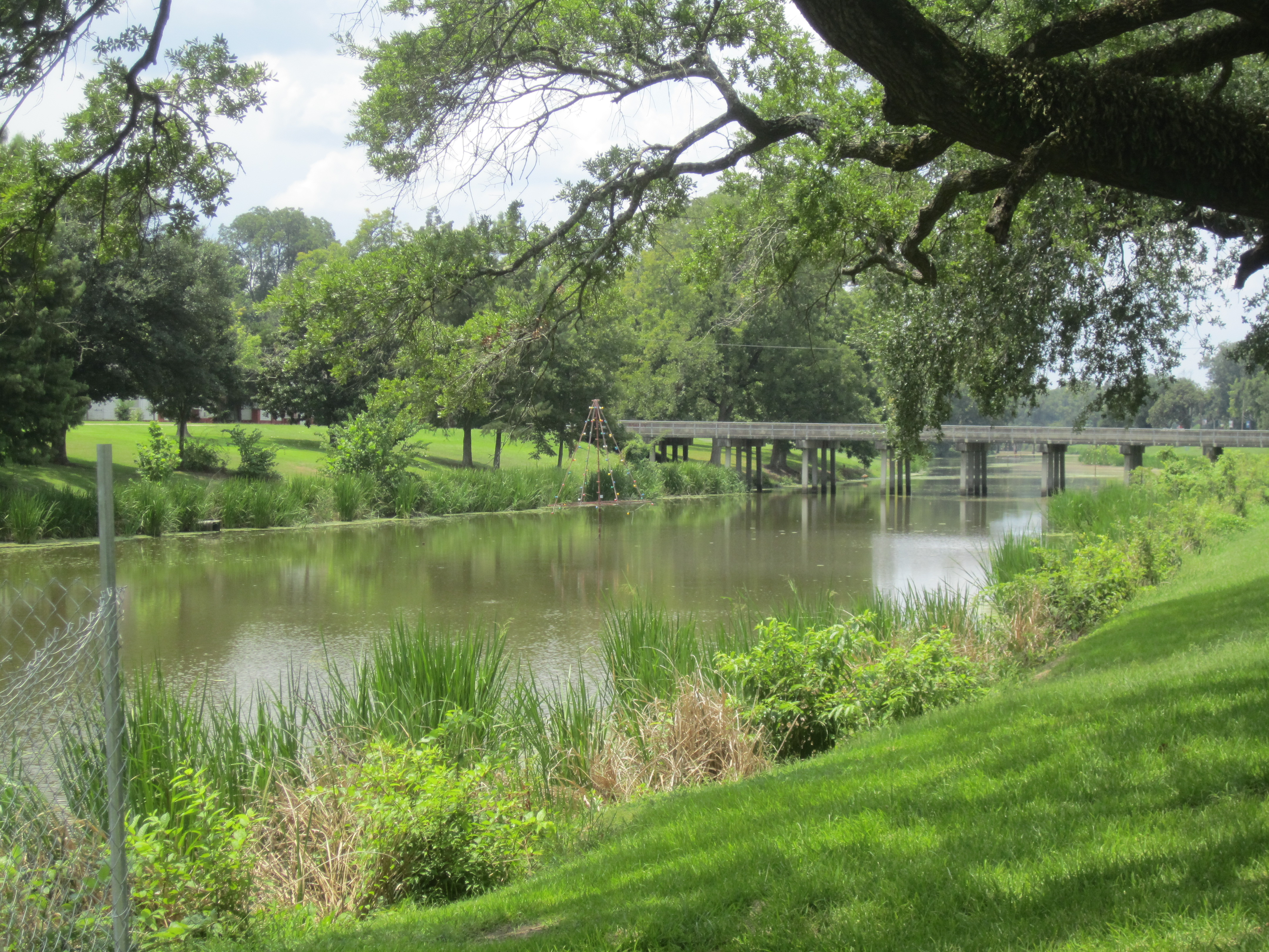 I took photo with Canon camera in Tallulah, LA.